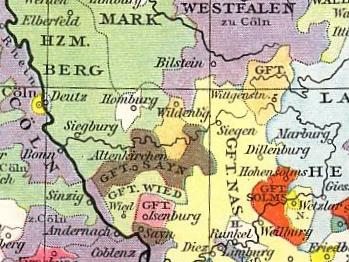 Map of the counties of Sayn, Wied, Isenburg, Runkel, and Wittgenstein; from: Droysens Historischer Handatlas; Illustrator: G. Droysen, Th. Lindner; date: 1886